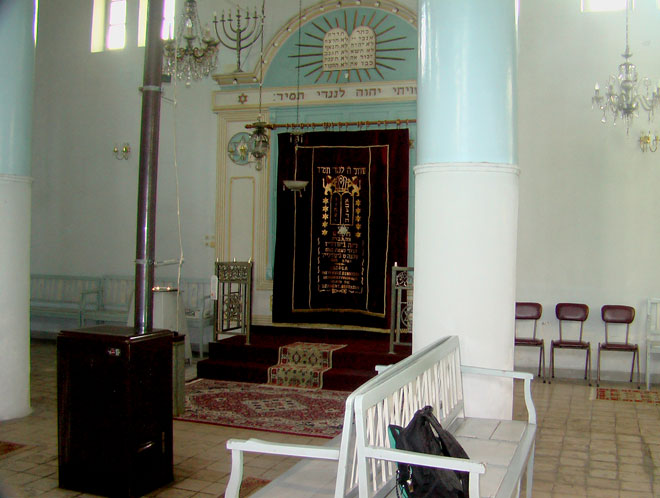 Trikala_Synagogue. Credit: Courtesy of Arie Darzi to memorialize the Jewish community in Greece.